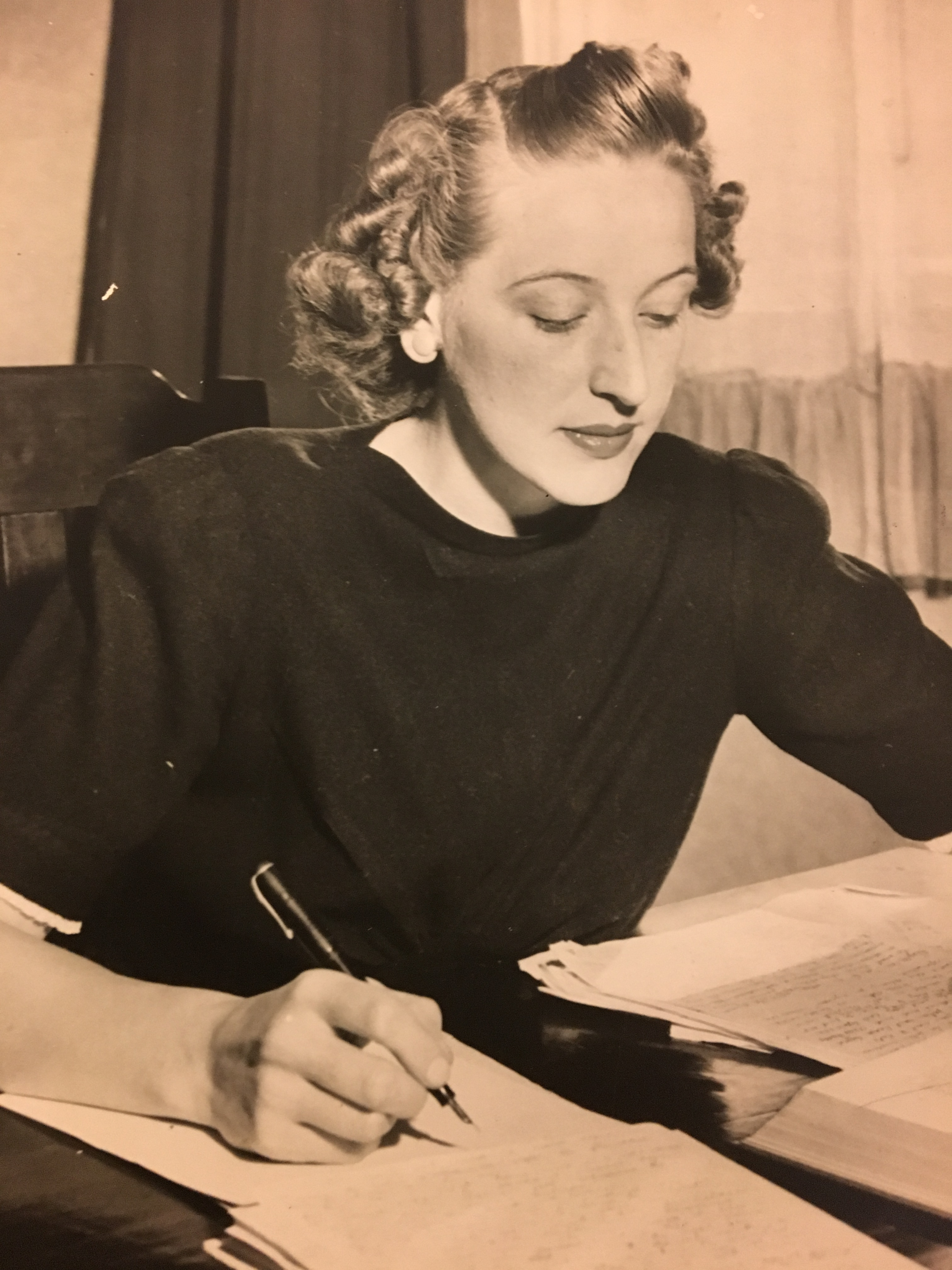 Australian author June Wright at work, 1952